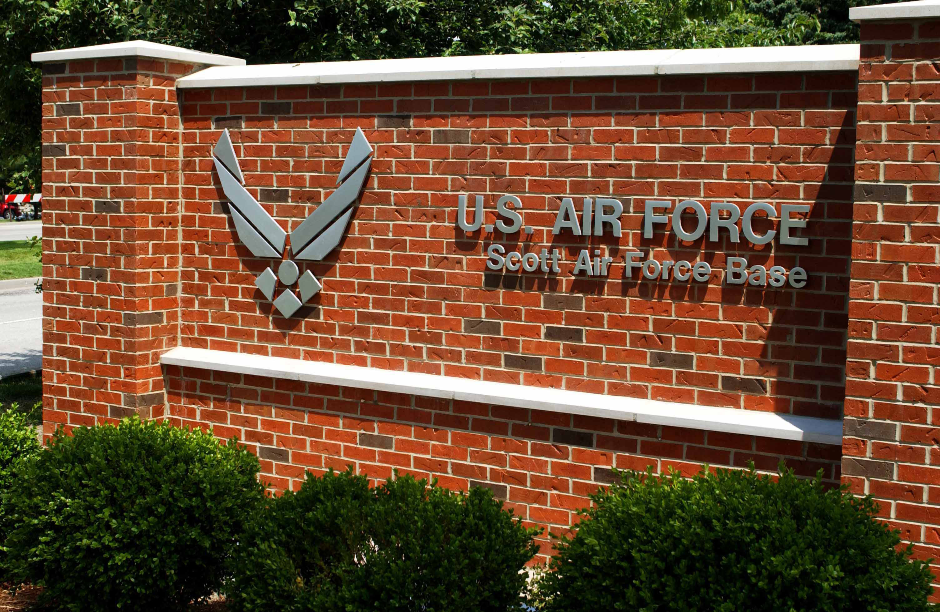 A newly erected US AIR FORCE (USAF) monument sign welcomes Team Scott members and visitors through the Belleville Gate entrance at SCOTT AIR FORCE Base (AFB), ILLINOIS. Location: SCOTT AFB, ILLINOIS (IL) UNITED STATES OF AMERICA (USA)